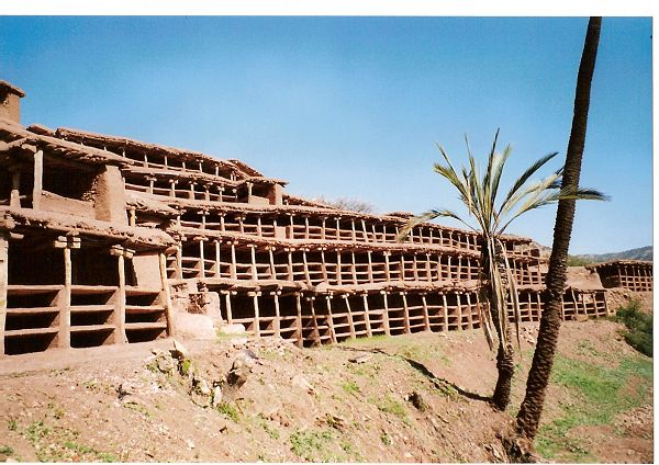 The largest apiary world's collective : Inzerki (Caidat of Argana)